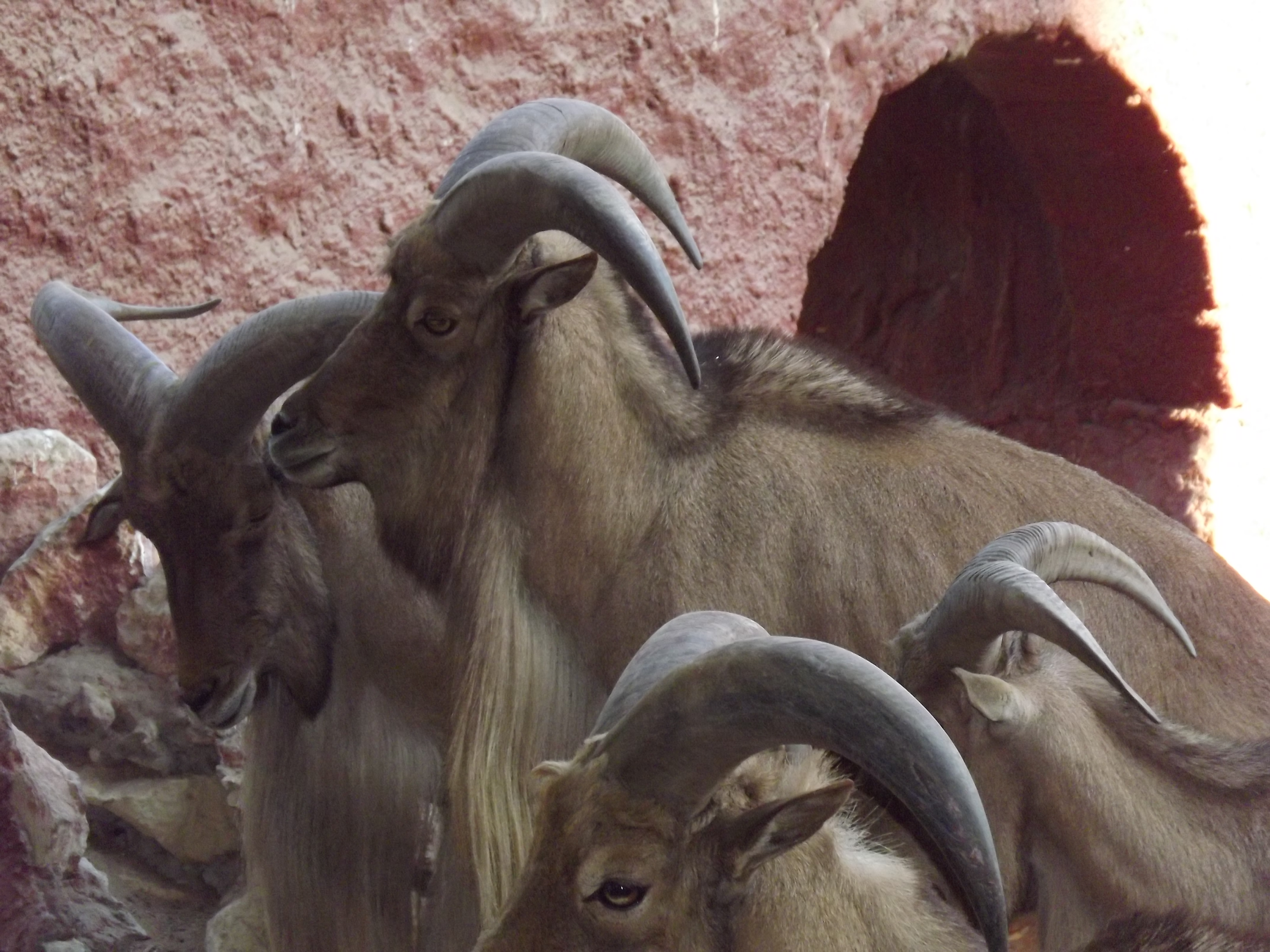 Barbary sheep